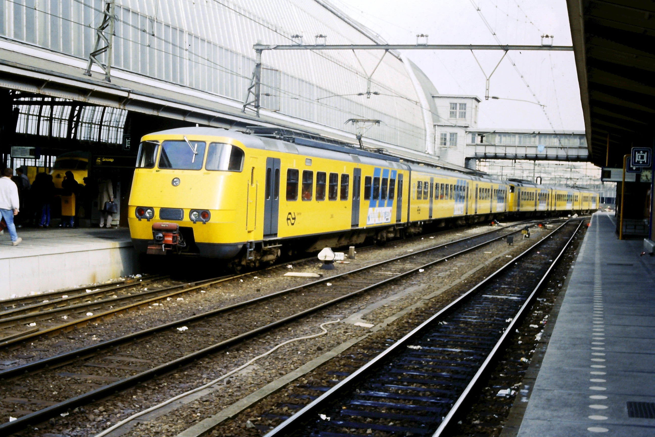 Scanned from slide.